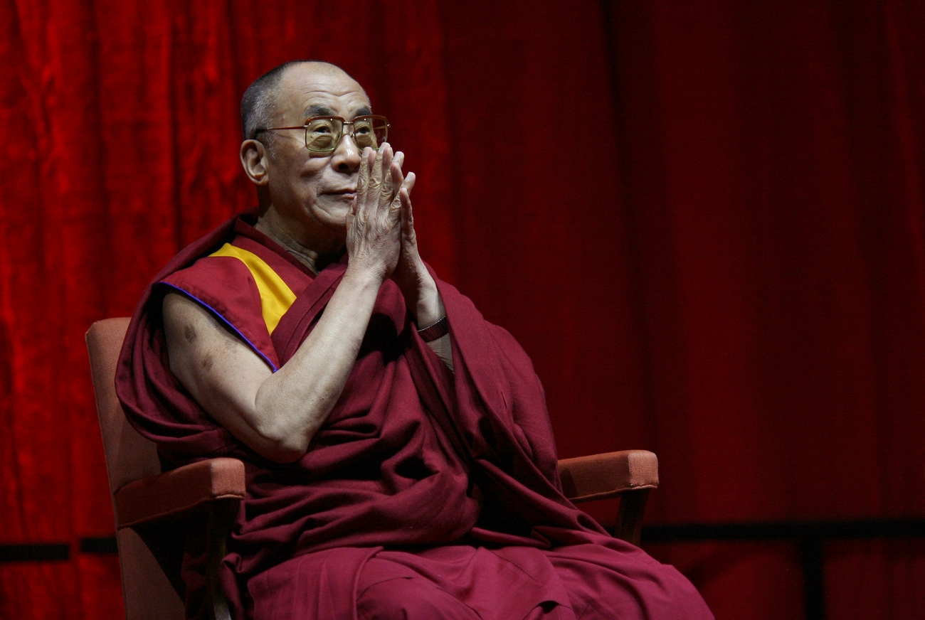 The 14th Dalai Lama, Tenzin Gyatso in Antwerpen, Belgium 2006